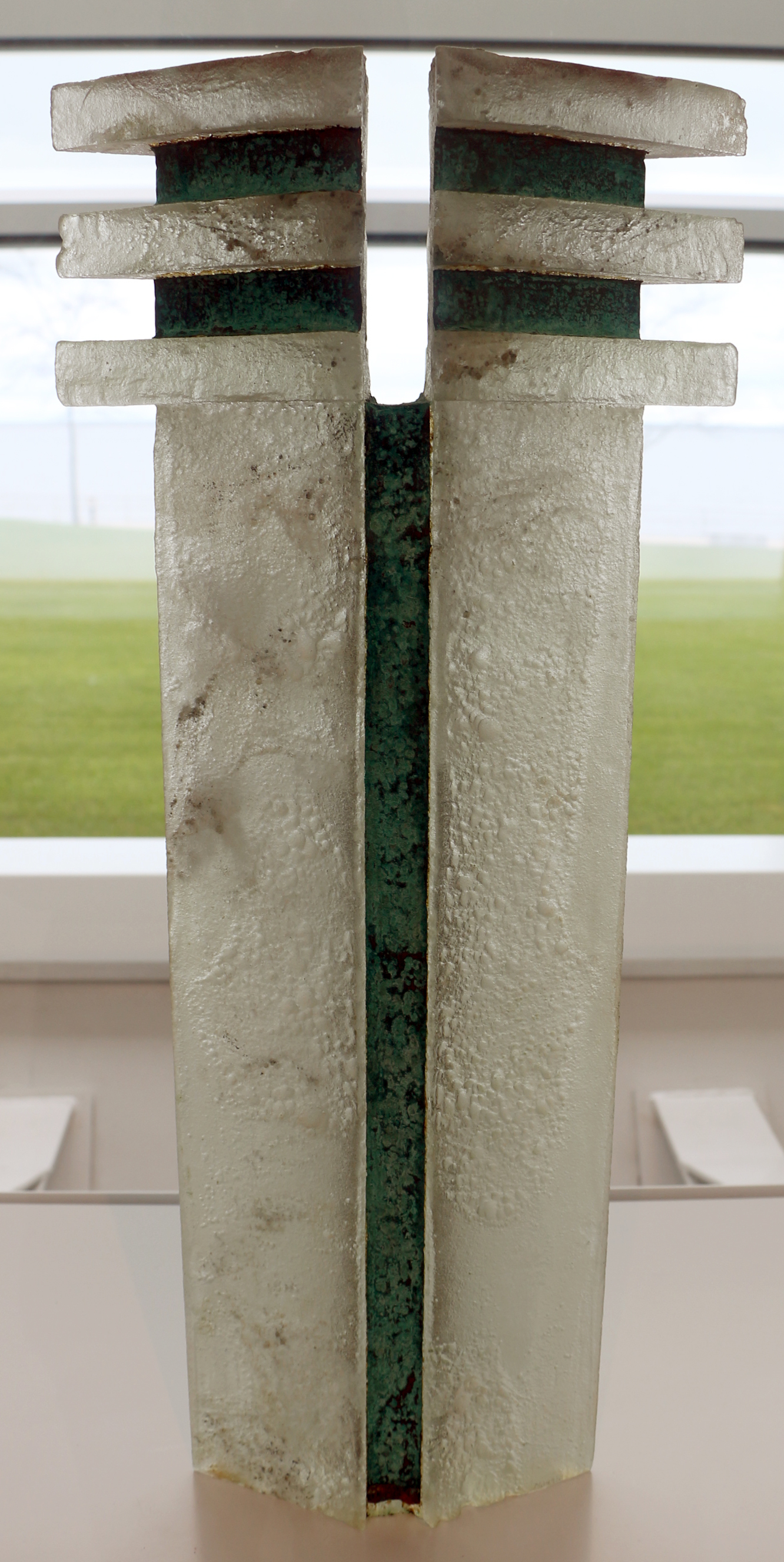 Glassware in the Milwaukee Art Museum